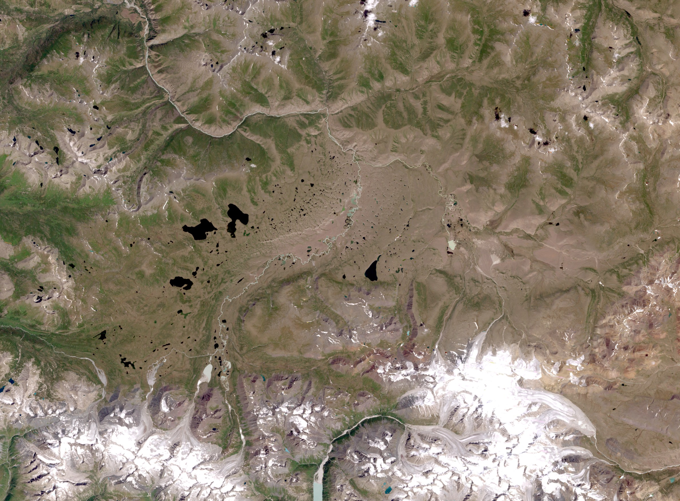 Ukok plateau satellite image LandSat-7, near natural colors, resolution 30 m